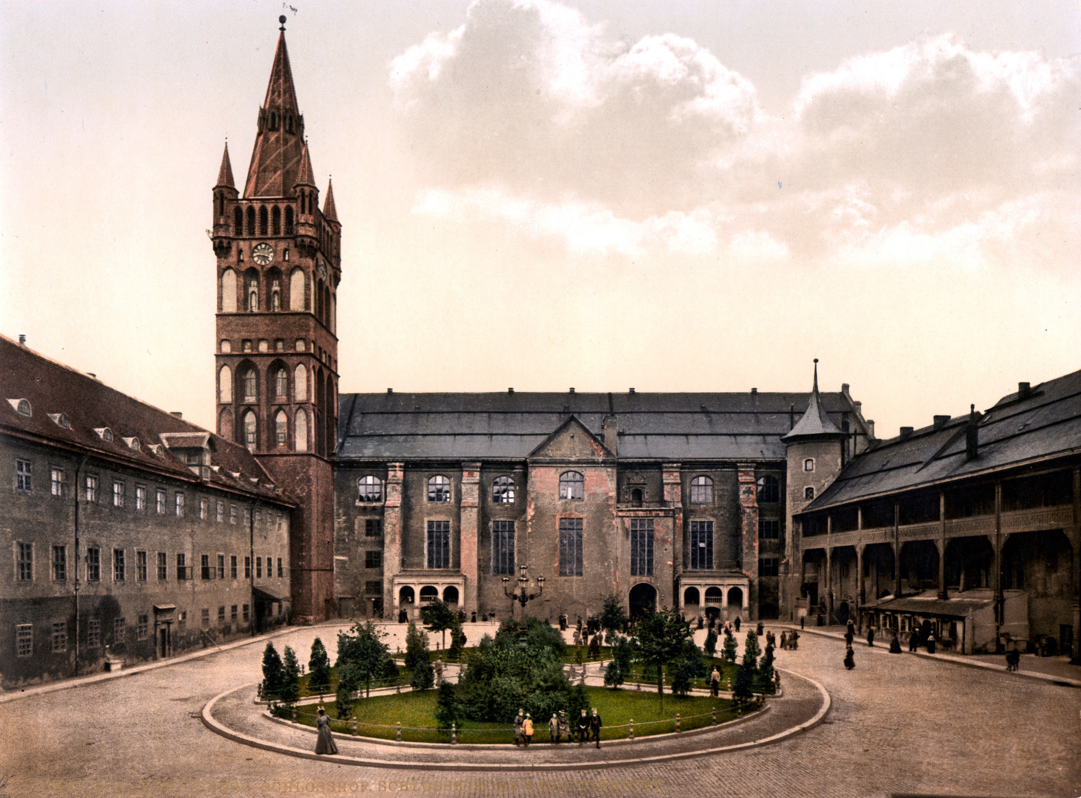 Königsberg Castle courtyard and church of the castle and the criminal tribunal, Kaliningrad, Russia